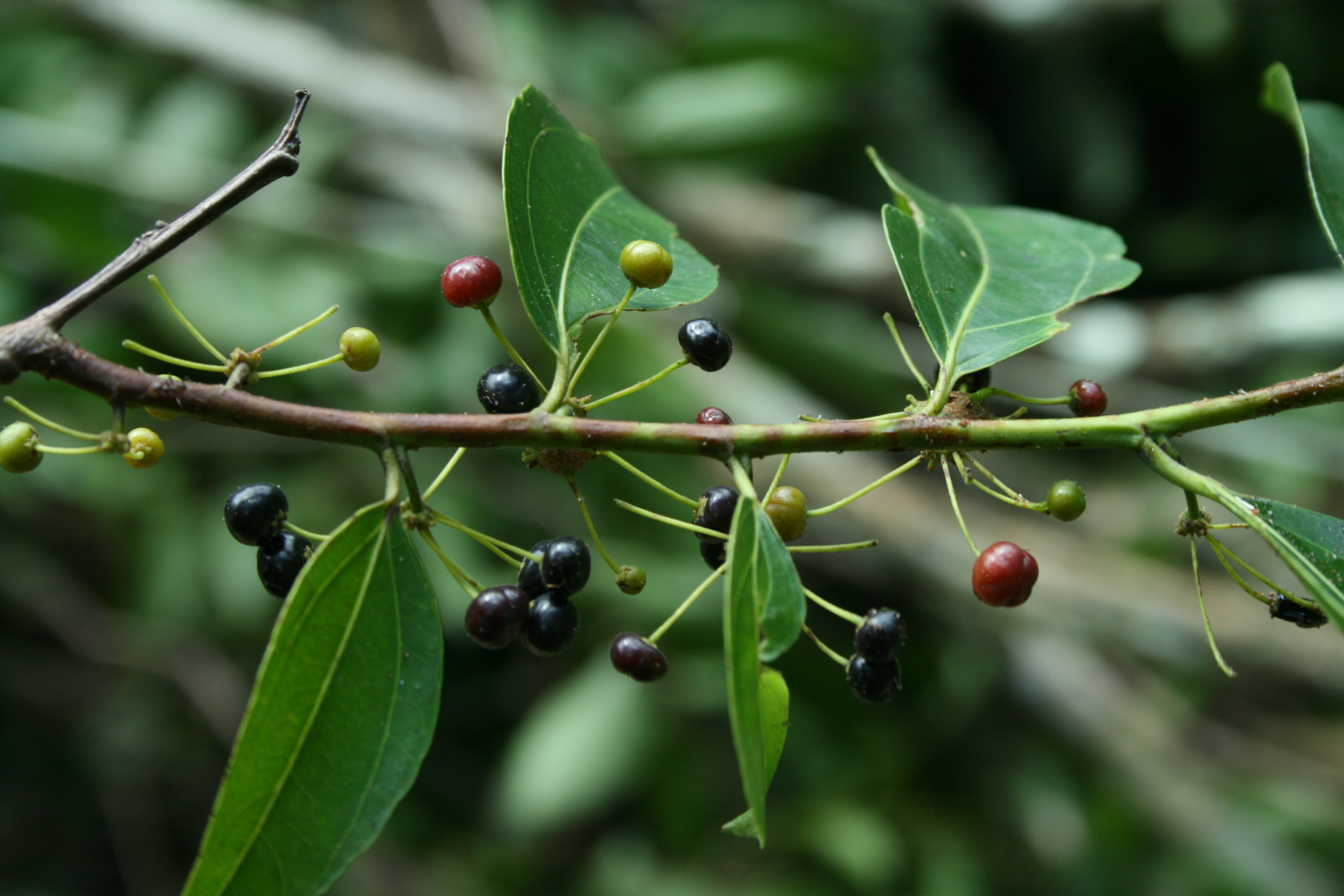 Fruiting branch of Goupia glabra, Rio Caura, Venezuela